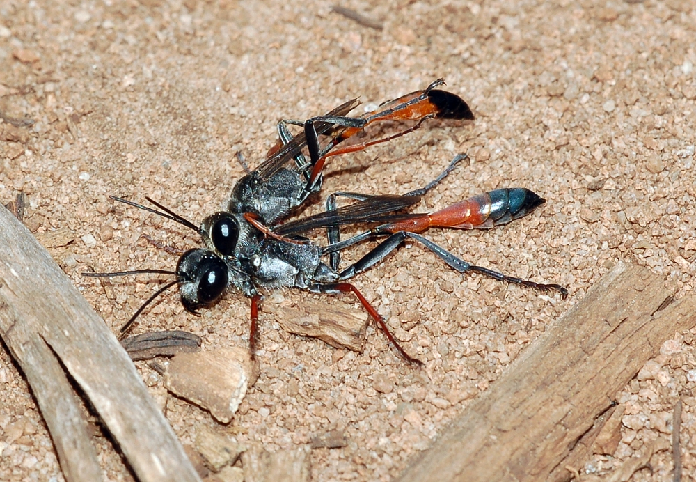 Sphecoid wasps, Sphecidae spec., Bedarieux, Languedoc-Roussillon, France